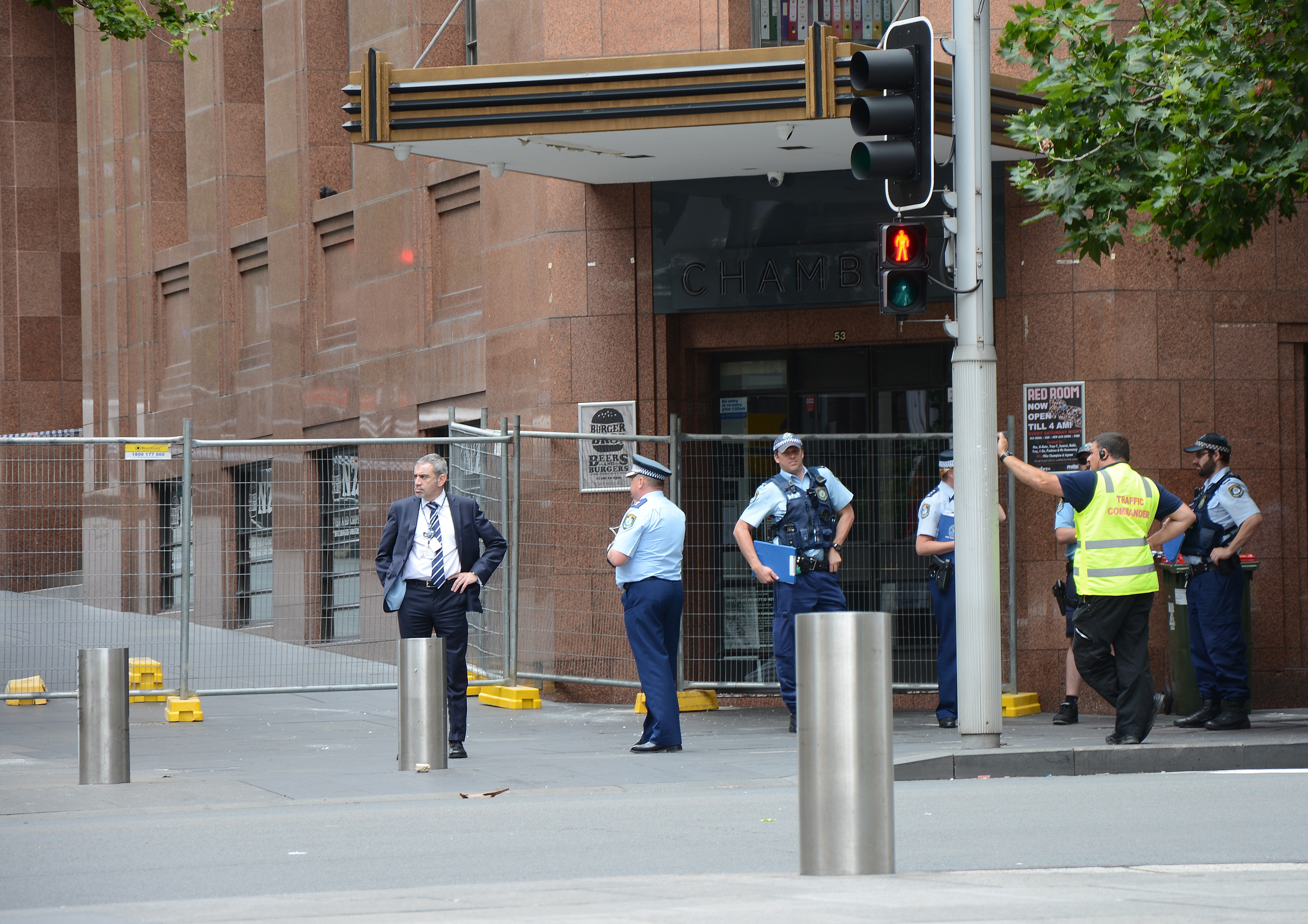 Police in Martin Place after Lindt Café siege, Martin Place, Sydney, 2014-12-16